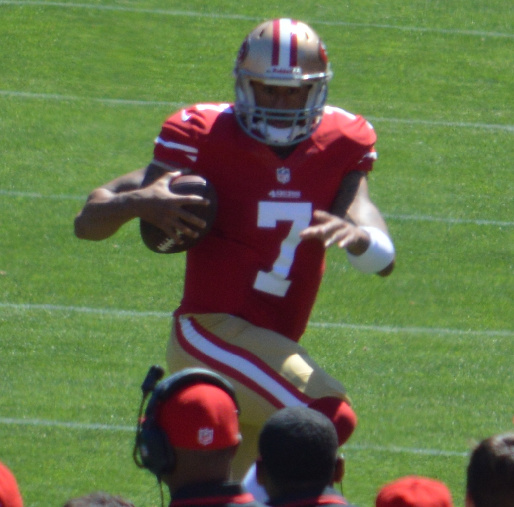 San Francisco 49ers quarterback Colin Kaepernick scrambles with the ball against the Green Bay Packers in both teams' season opener.